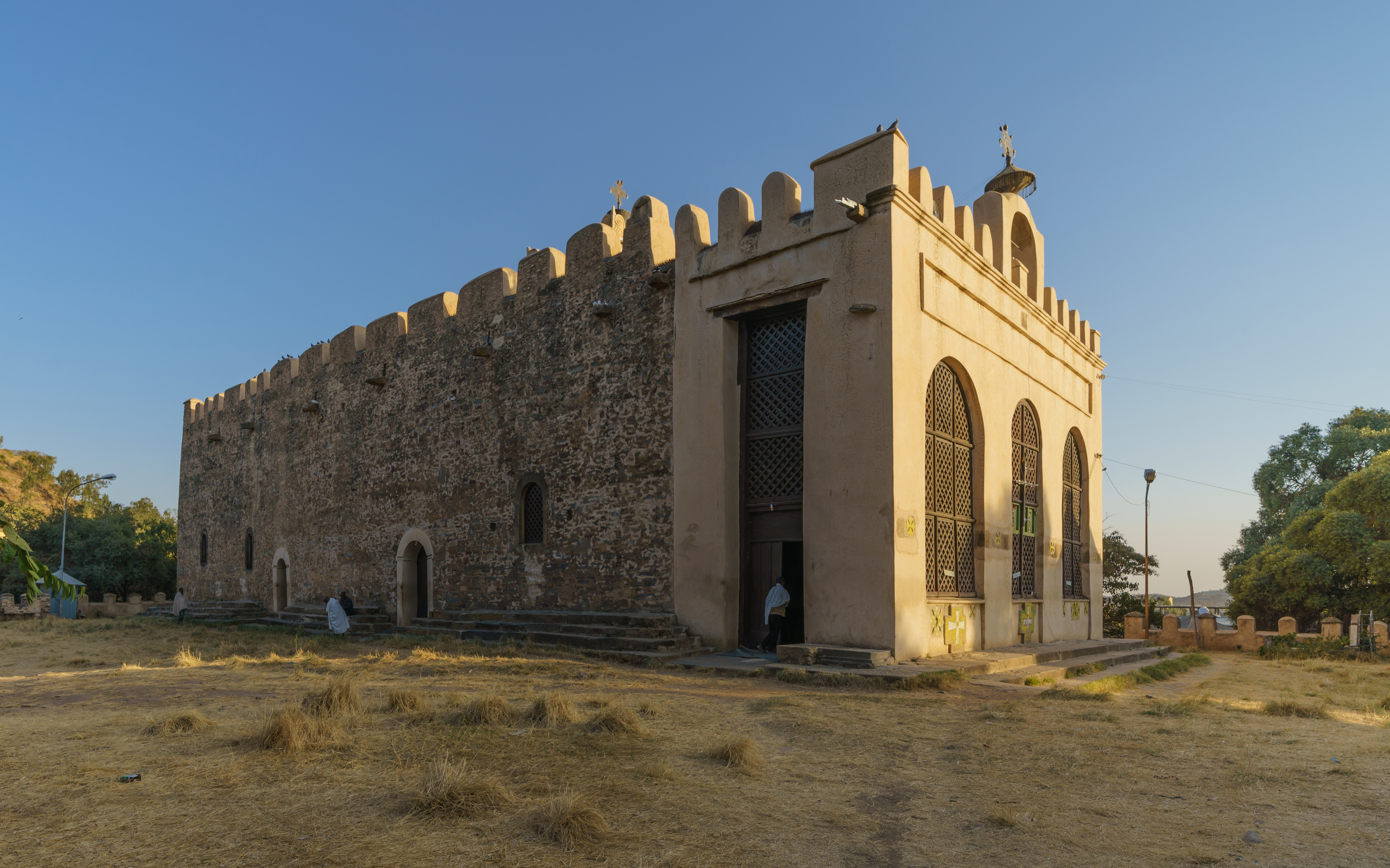 Old Church of Saint Mary of Zion in Aksum, Tigray Region, Ethiopia